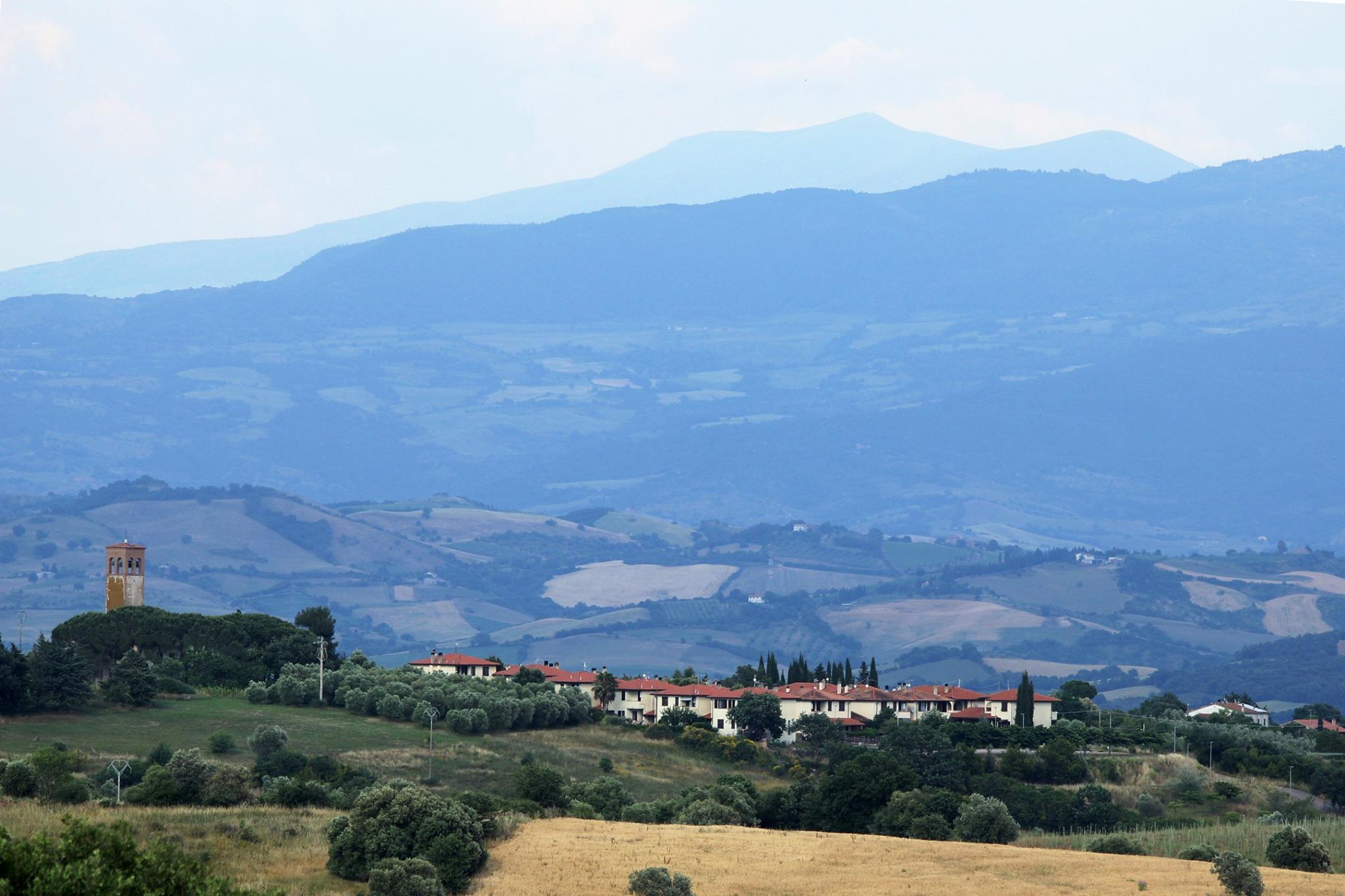 View of Marrucheti, town in the Province of Grosseto, Tuscany